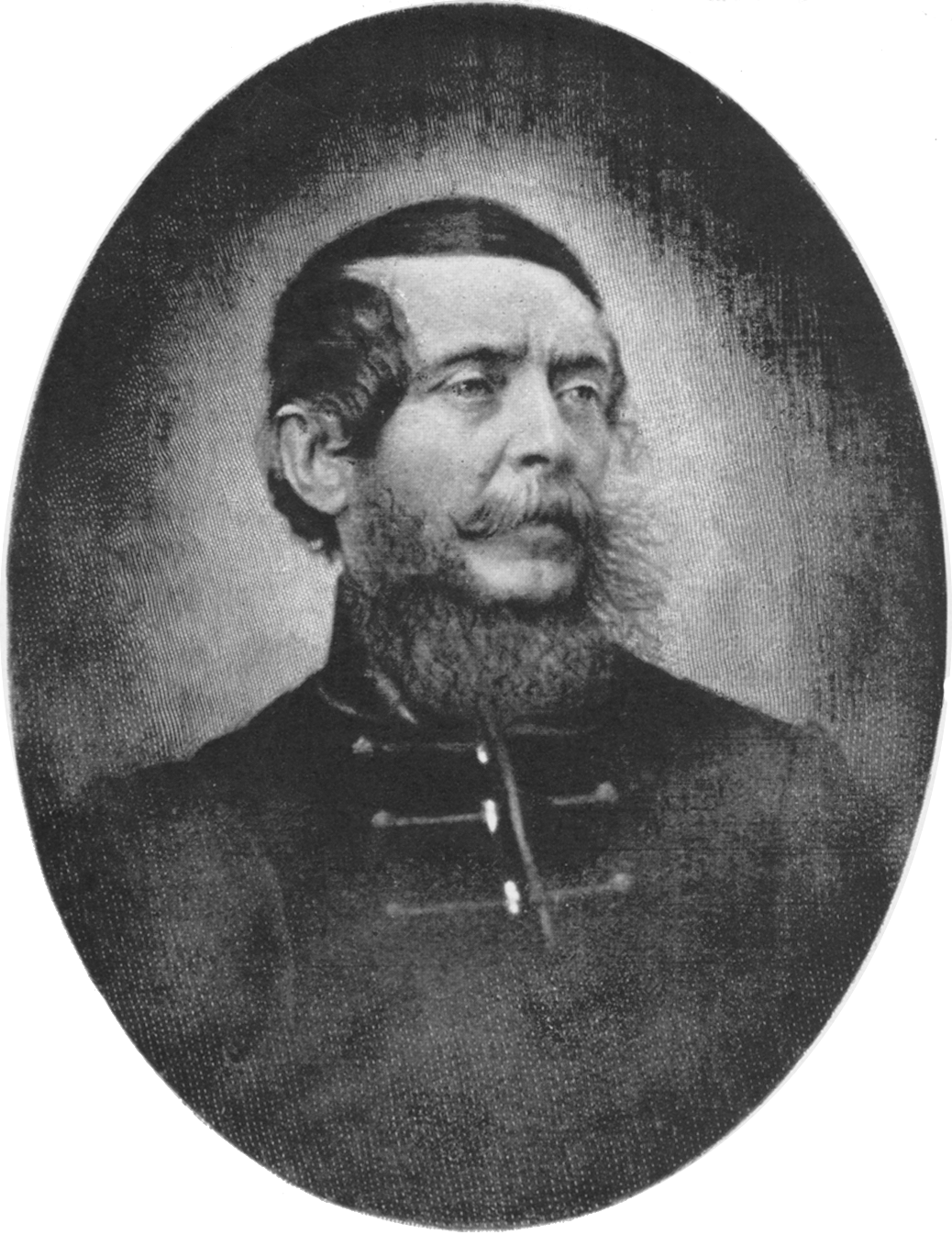 A black and white bust portrait daguerreotype of Kossuth in an oval frame.